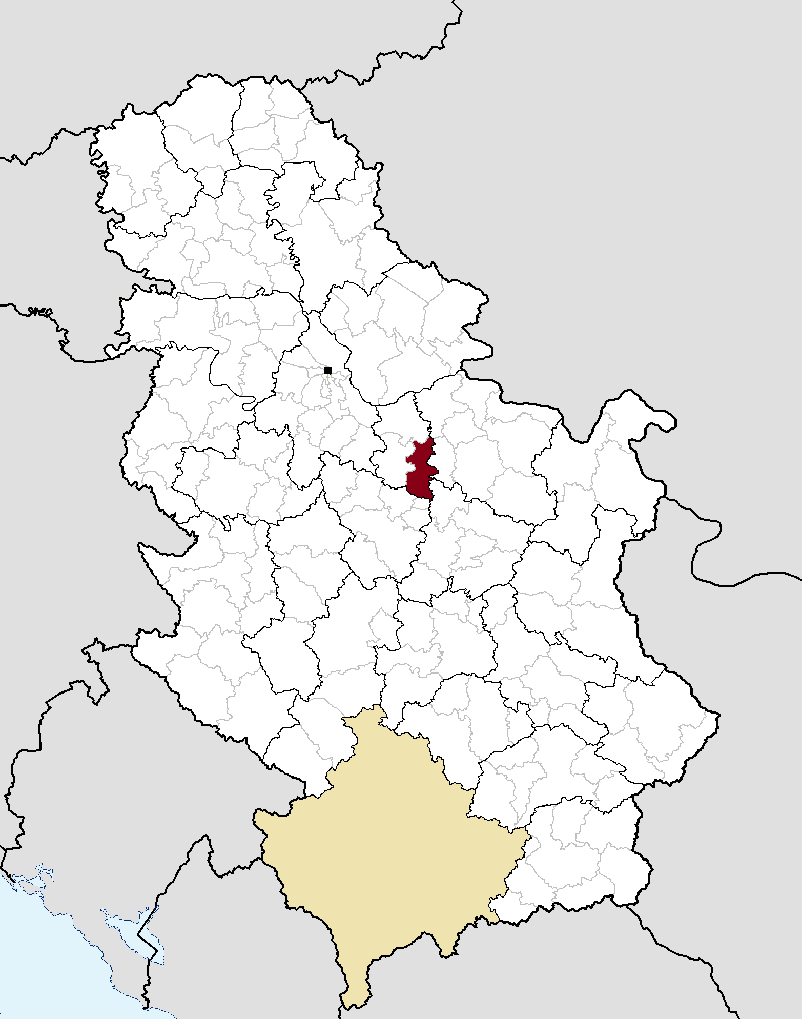 Municipal location in Serbia